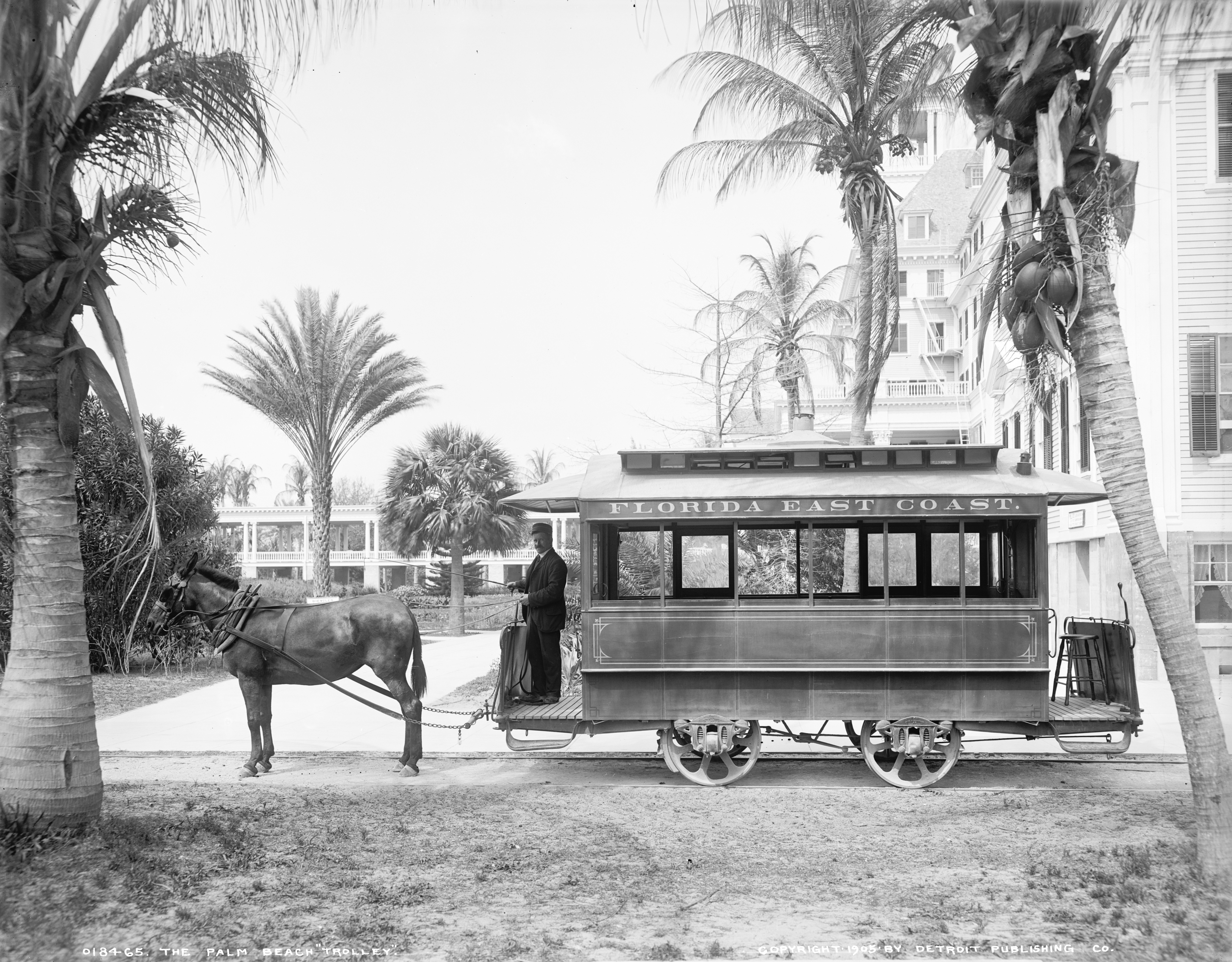 The Palm Beach trolley